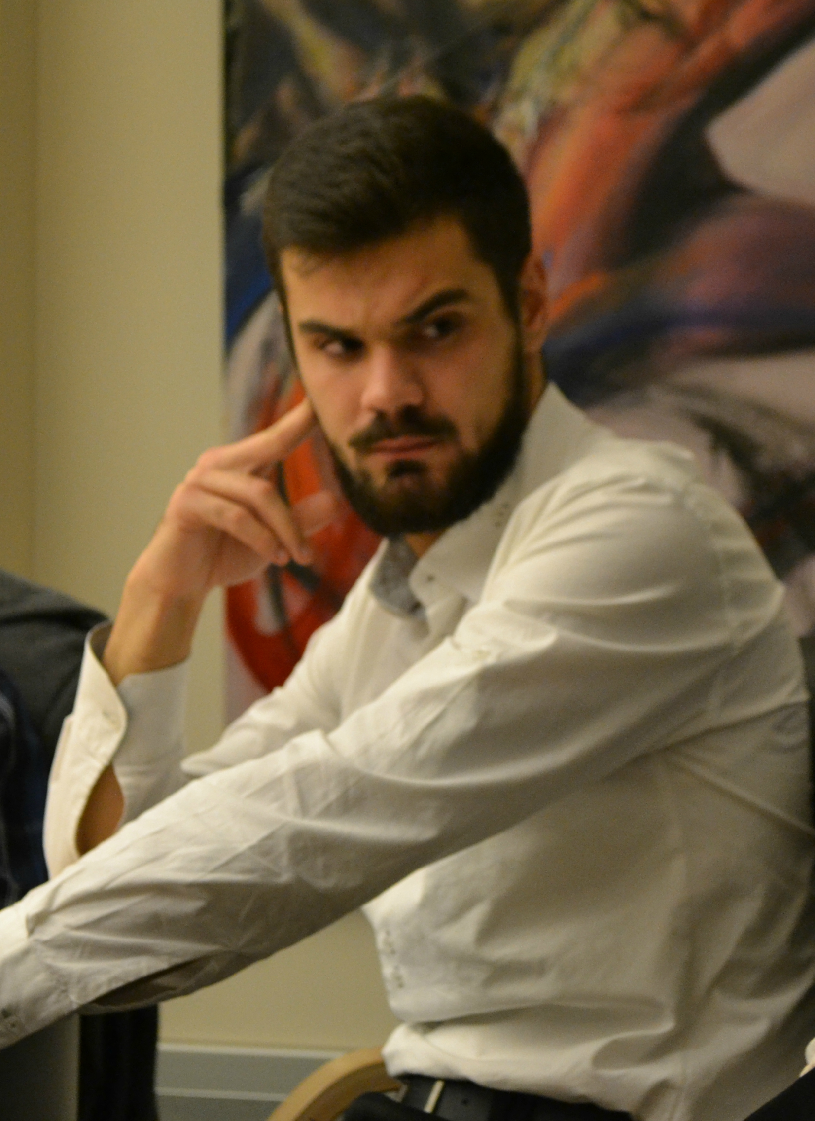 Matija Mondi Matović - © 2015